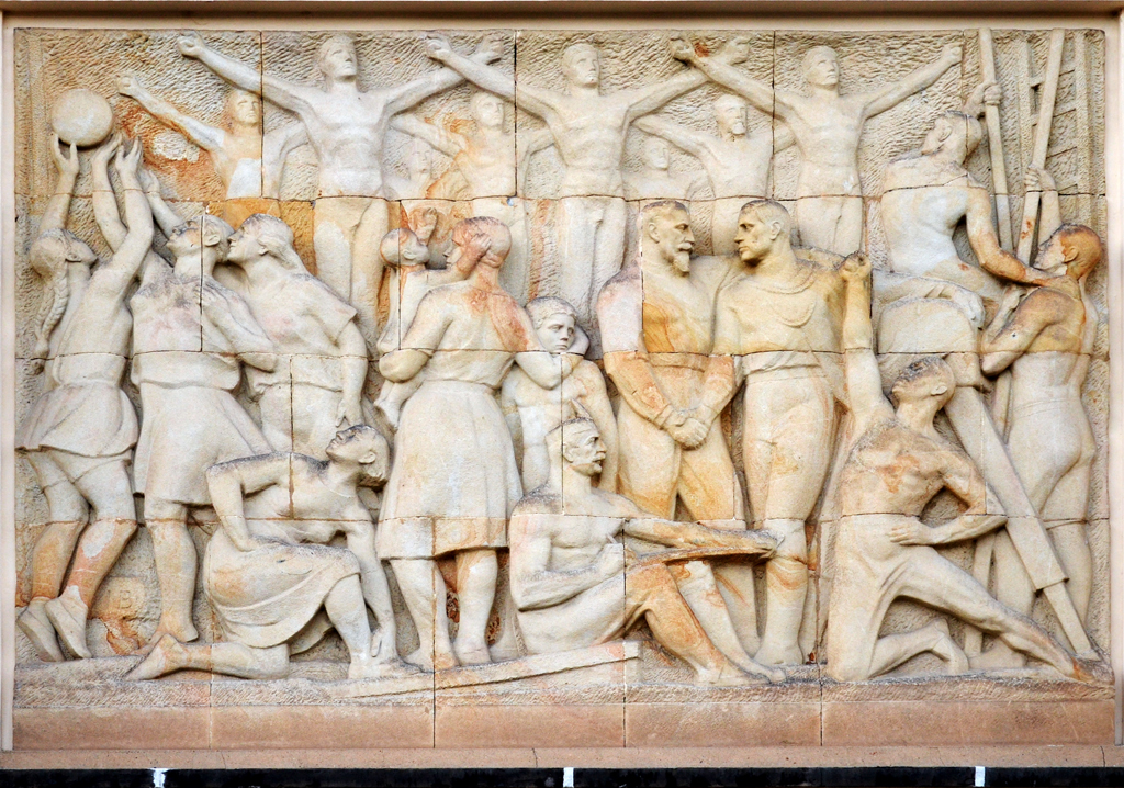 Relief (II) by Jaroslav Brůha, Czech sculptor, Tyršův dům, Sokol, Prague